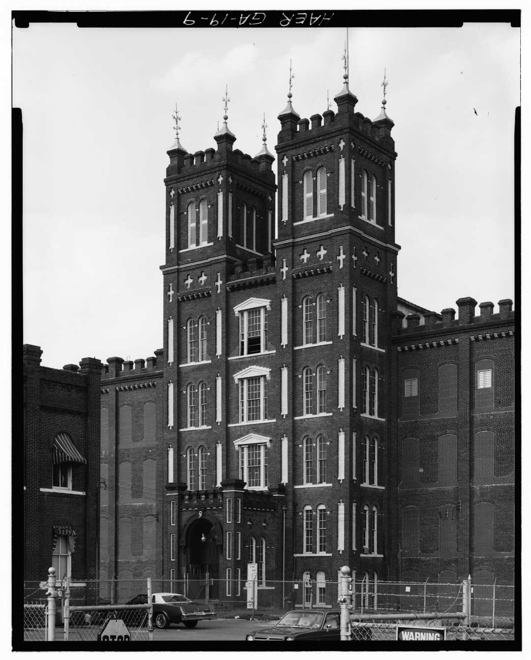 Bell Towers of the Sibley Mill, Main Building in the City of Augusta, Georgia at 1717 Goodrich St. Photograph accompanying Historical American Engineering Record Survey Number GA-19 ca. 1977, marked 'HAER GA-19-9'. Retrieved from